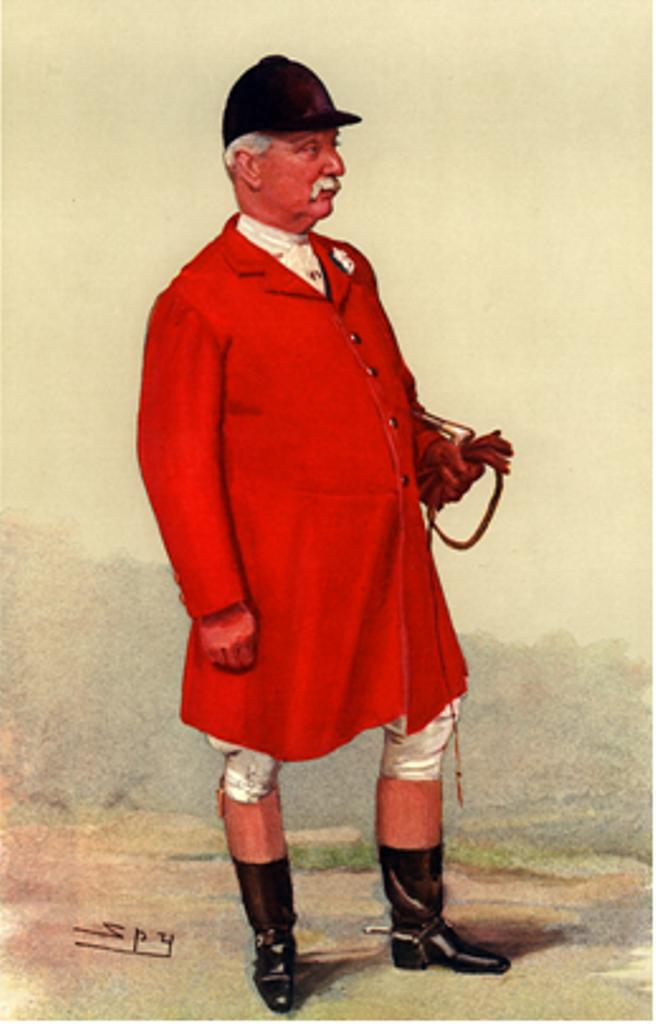 Caricature of Albert Brassey - “The Master of the Heythrop” (Heythrop Hunt).